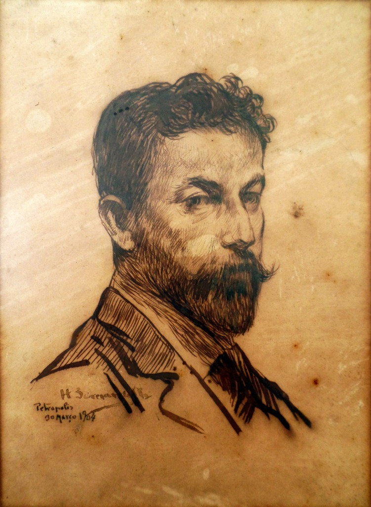 HENRIQUE BERNARDELLI (1858 - 1936), Portrait of Alberto Nepomuceno (1864-1920), dated: March 30, 1904, china ink on paper (probably), 27,5 x 20 cm. Private Collection. Photo: Gedley Belchior Braga